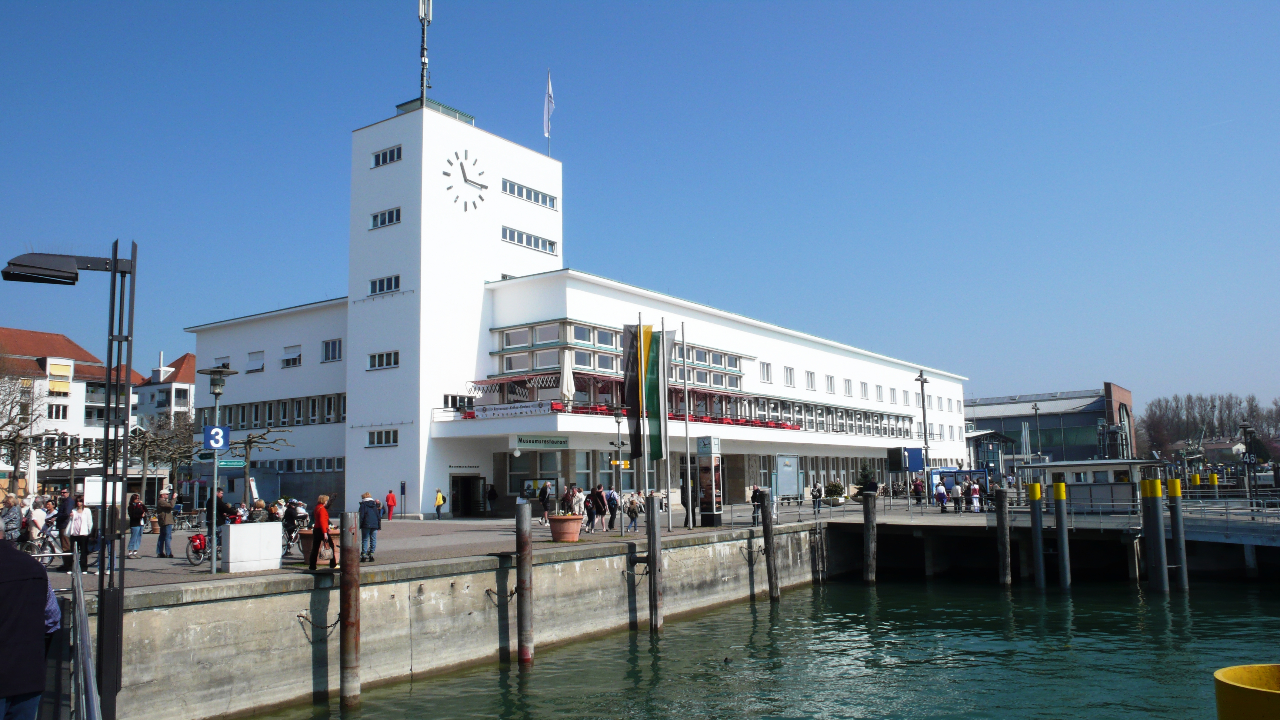 Friedrichshafen - Museum / Graf-Zeppelin-House